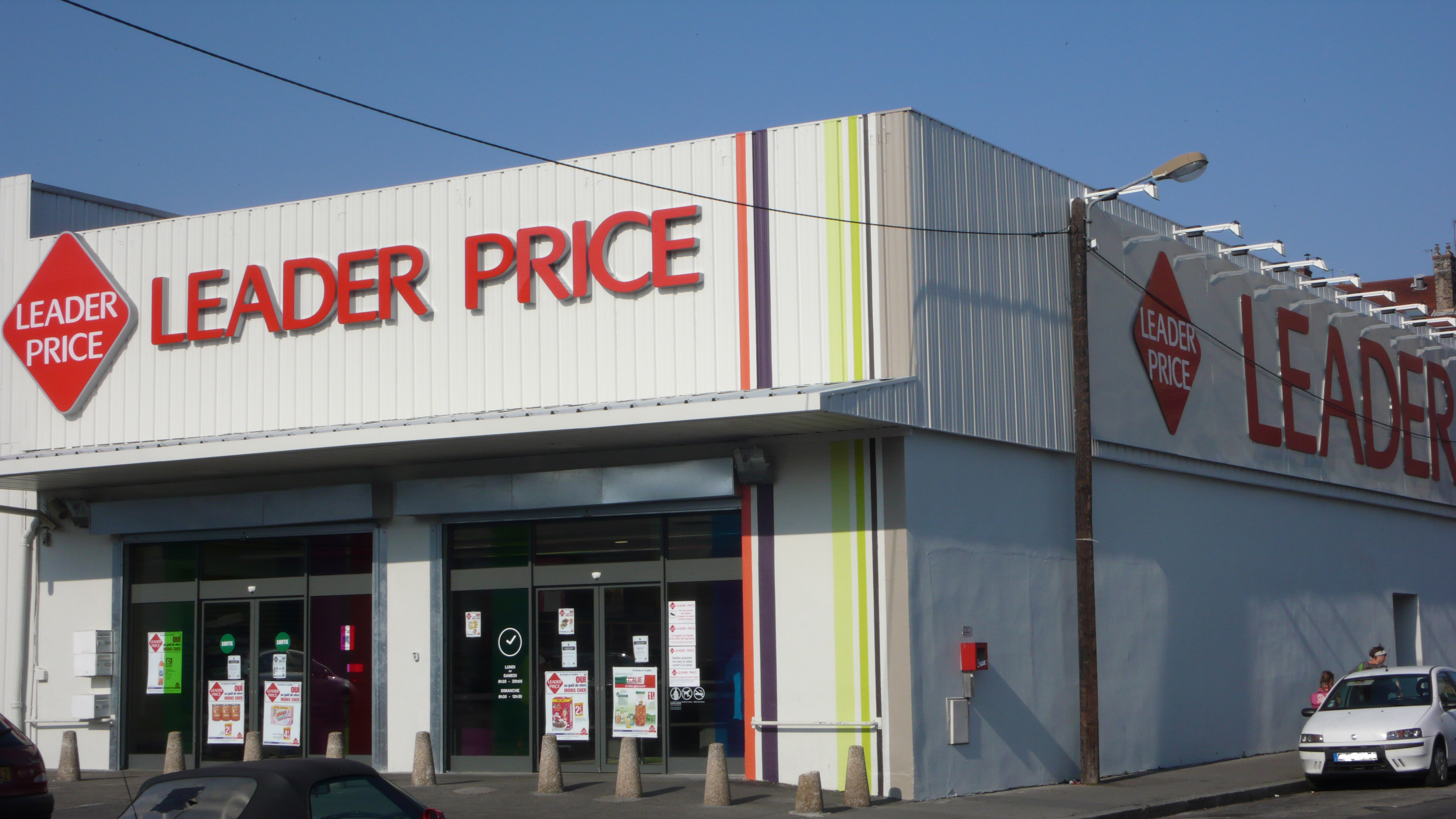 "Leader Price" hard discount in Villeurbanne (F-69100). The supermarket was renewed in May 2011.